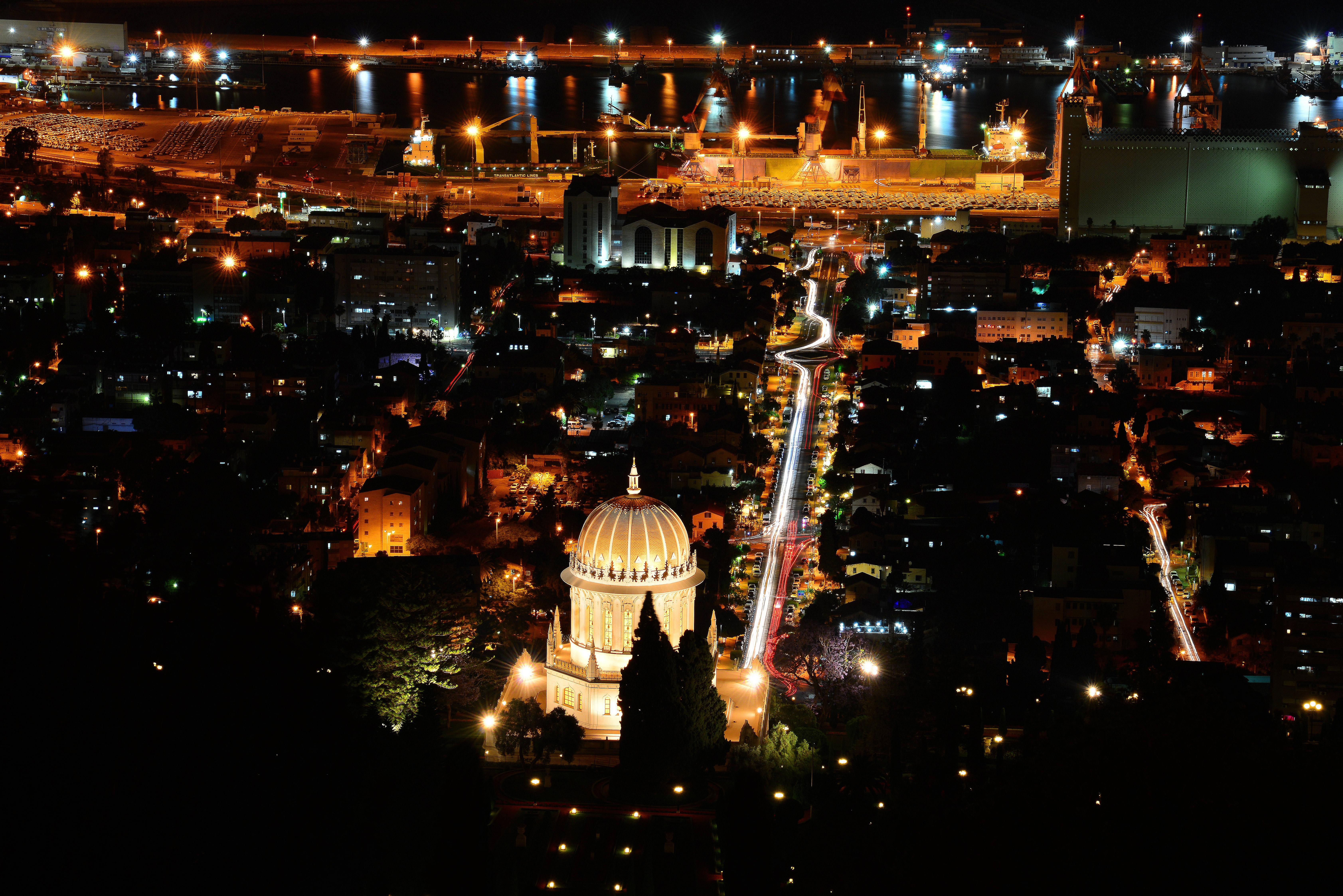 中文（中国大陆）: Historic sites in Israel photos international competition